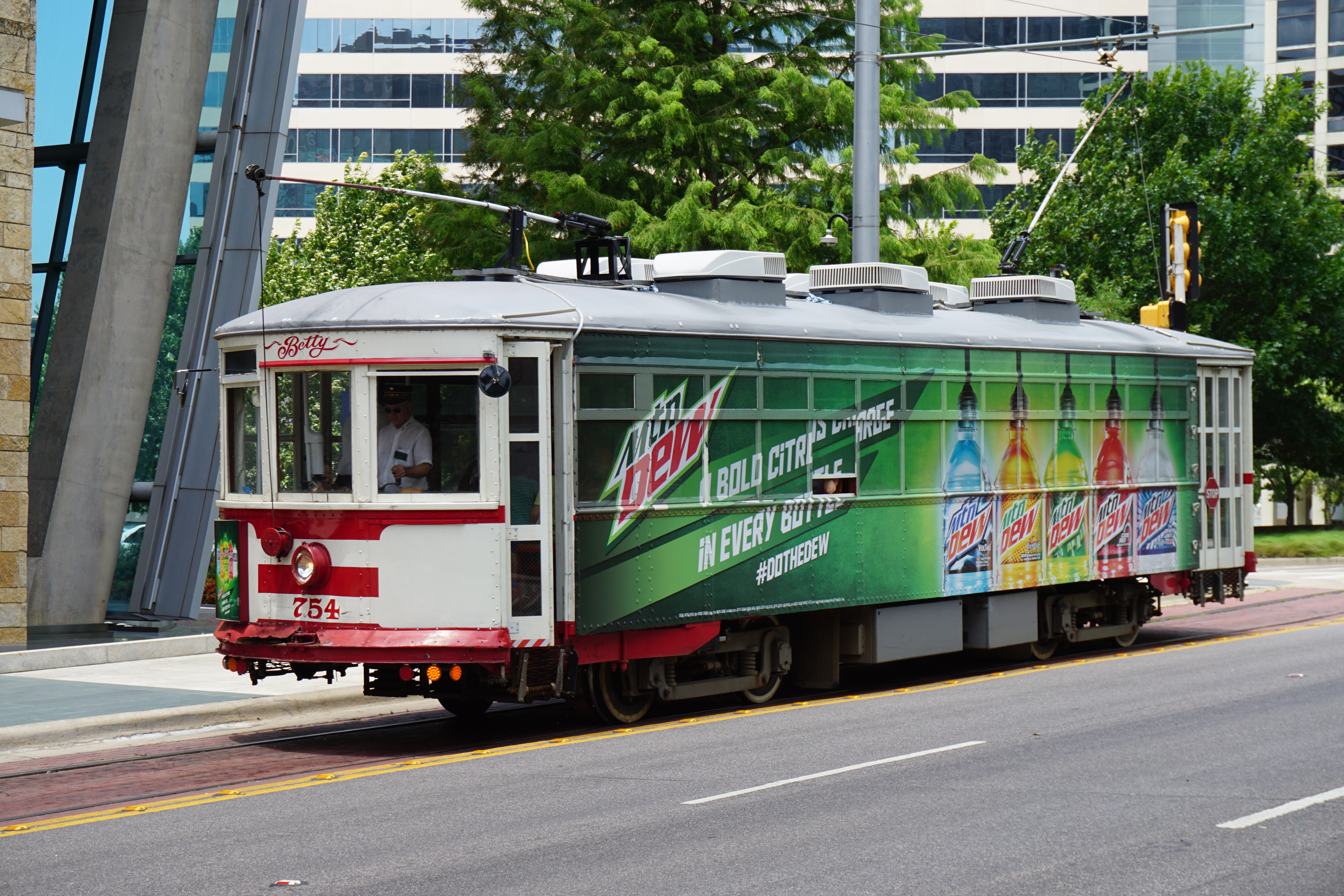 McKinney Avenue Transit Authority streetcar Betty (No. 754) in Dallas, Texas (United States).